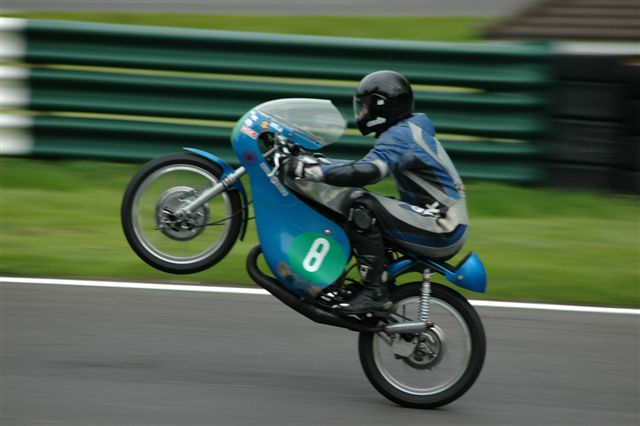 Me on my bike at Cadwell Park - 2005